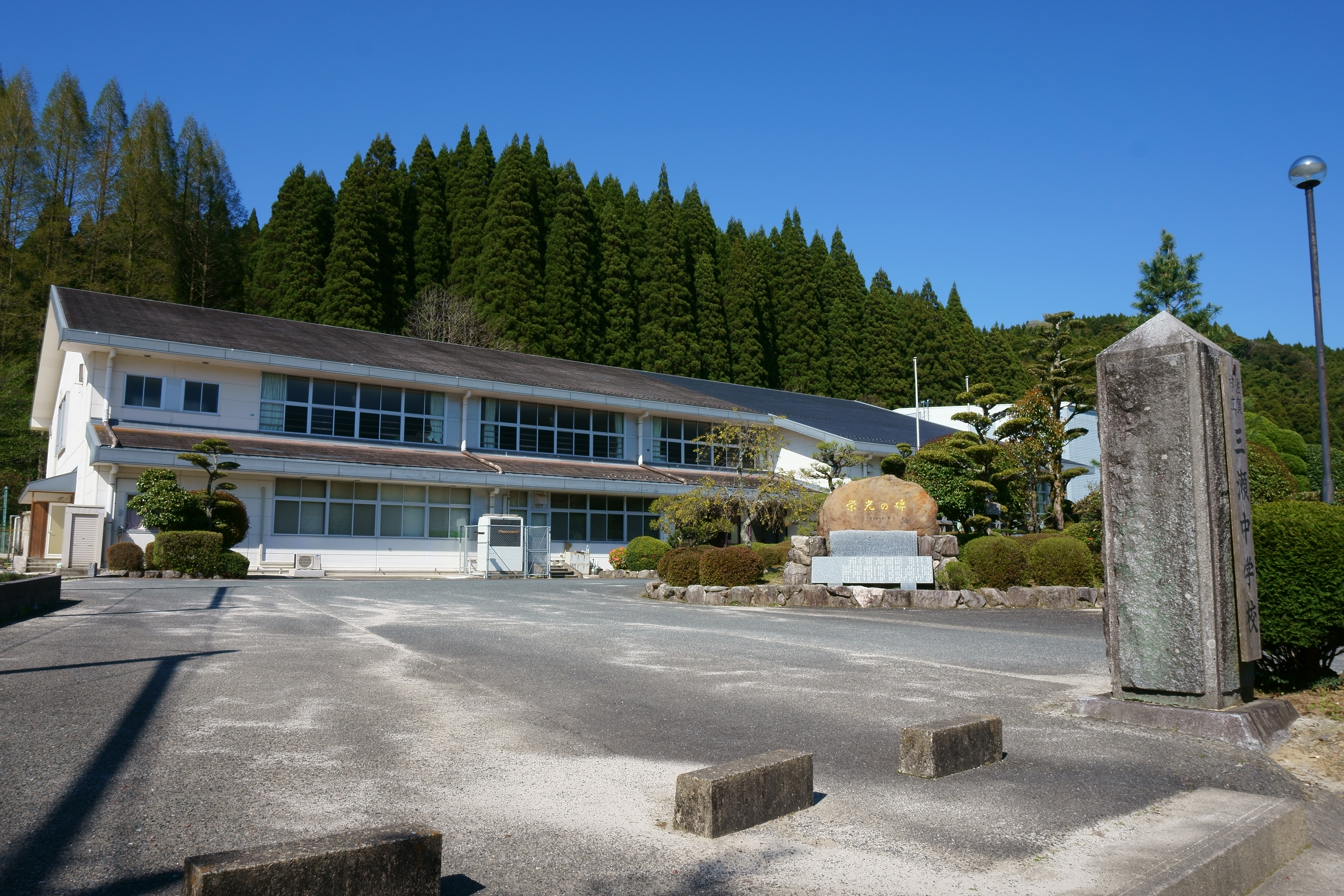 Mitsuse Junior High School, a Saga municipal school in Mitsuse, Mitsuse-mura, Saga city, Saga prefecture.